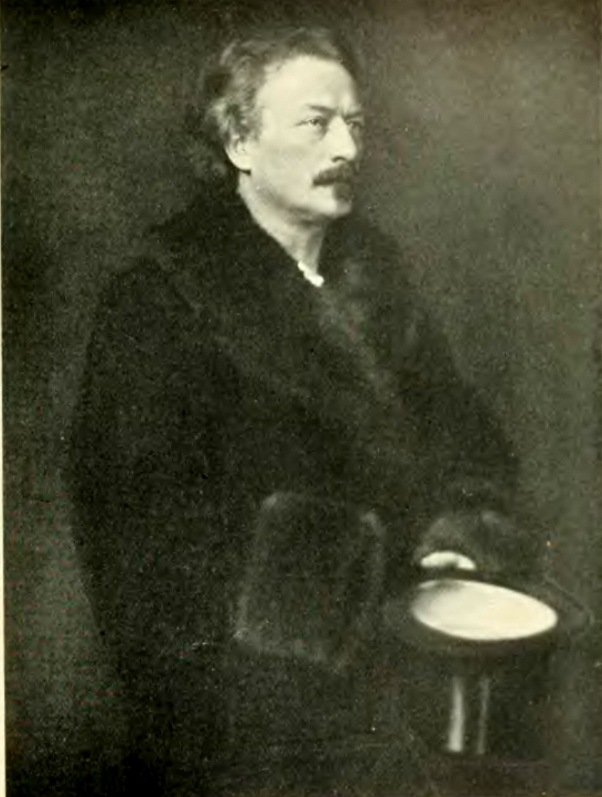 Polish Prime Minister and renowned pianist Ignacy Jan Paderewski.